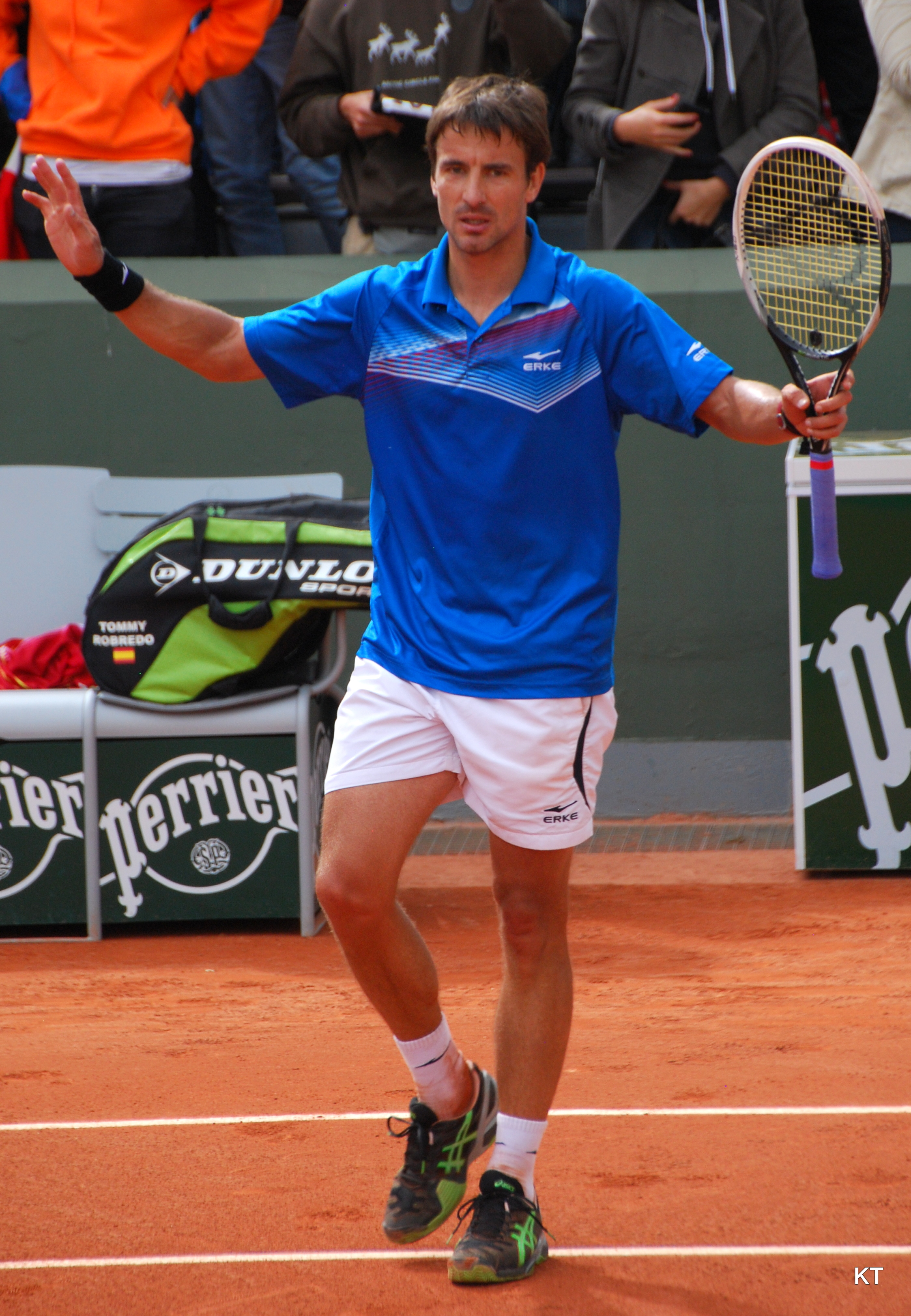 Tommy Robredo defeats Igor Sijsling in 5 sets 6-7, 4-6, 6-3, 6-1, 6-1. This was the first of three consecutive wins where he came back from 2 sets down. Day 4 of Roland Garros 2013.